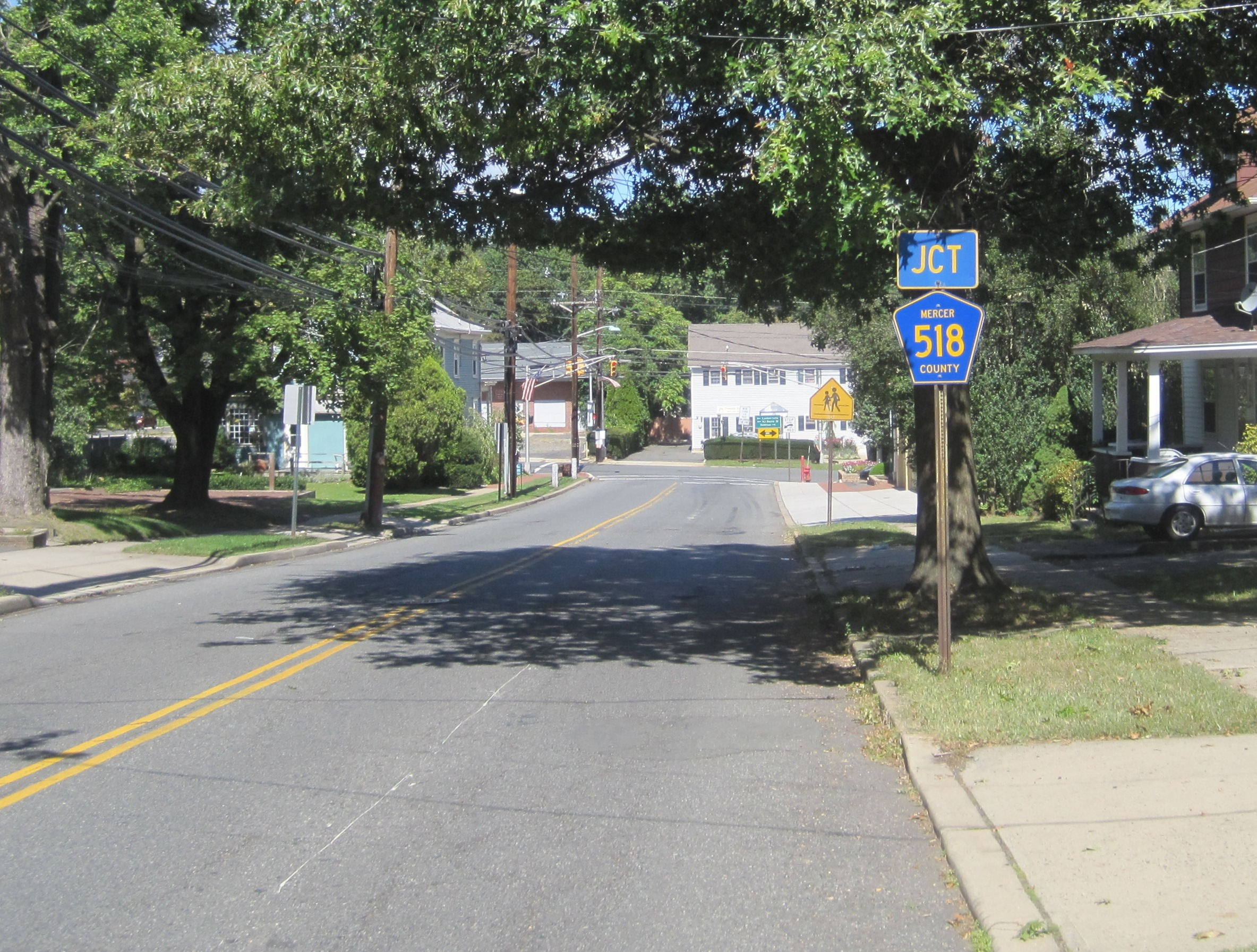 Photograph of County Route 569's northern terminus at County Route 518 in Hopewell borough, New Jersey.